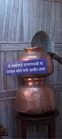 kalyan swami water pots